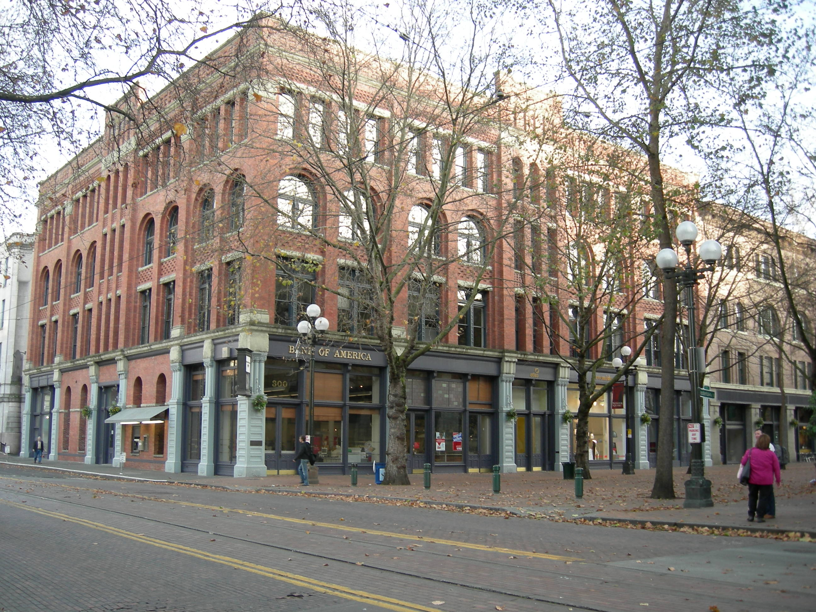 State-Burke Building or Burke-State Building, Pioneer Square neighborhood, Seattle, Washington, USA. The building, which combines two older buildings, takes up the entire east side of Occidental Mall in the Pioneer Square neighborhood of Seattle, Washington. For further information about this building see Summary for 300 Occidental WAY / Parcel ID 5247800695, Seattle Department of Neighborhoods for the more northerly State Building (built 1891, the last major Seattle project by Elmer H. Fisher, on your left as you face the building from Occidental Mall) and Summary for 314 Occidental WAY / Parcel ID 5247800695, Seattle Department of Neighborhoods for the more southerly Burke Building (built 1900, on your right as you face the building from Occidental Mall, also known as Sportscaster and Company Building / Cracker and Candy Factory / Seattle Cracker and Candy Factory). These two pages on the site of the Seattle Department of Neighborhoods both accidentally omit "South" from the addresses, which should be 300 Occidental Way South and 314 Occidental Way South, respectively. The Burke Building was originally the Schwabacher Hardware wholesale/warehouse, and is not Seattle's formerly famous (but now demolished) Burke Building that once stood at the site that is now the Henry M. Jackson Federal Building. However, it is named after the same person: Judge Thomas Burke. This picture basically shows the Burke Building and a small part of the State Building.